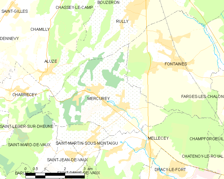 Map of French municipality